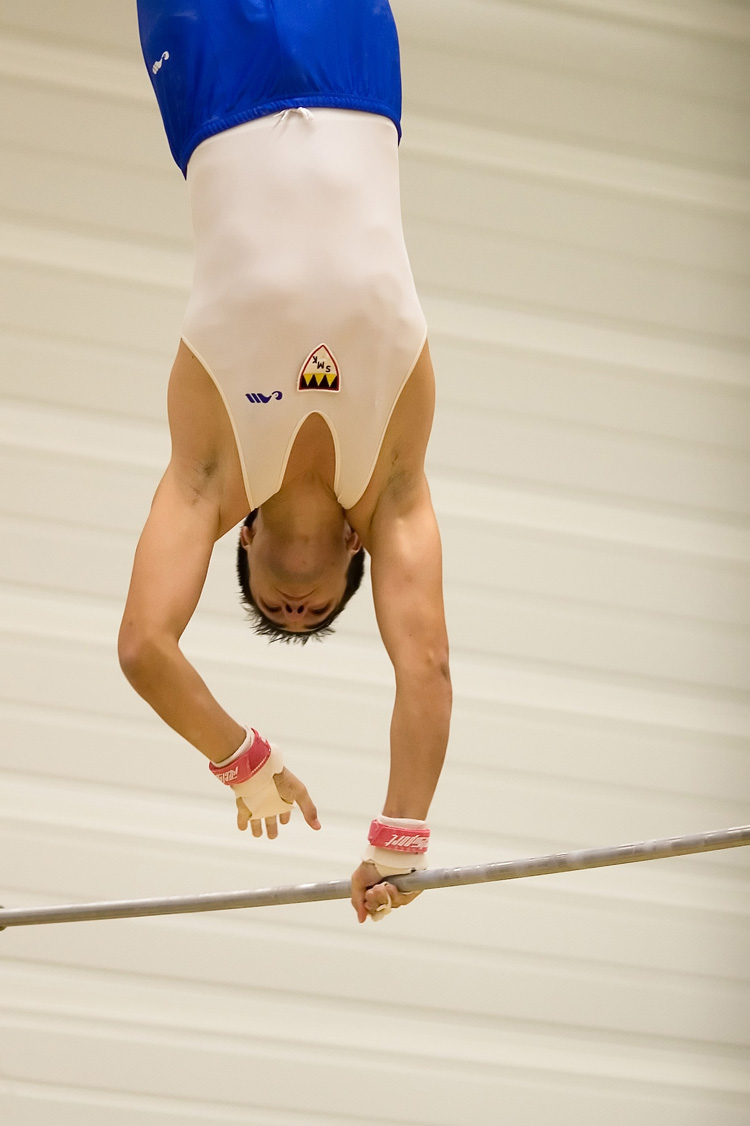 Figure on horizontal bar.